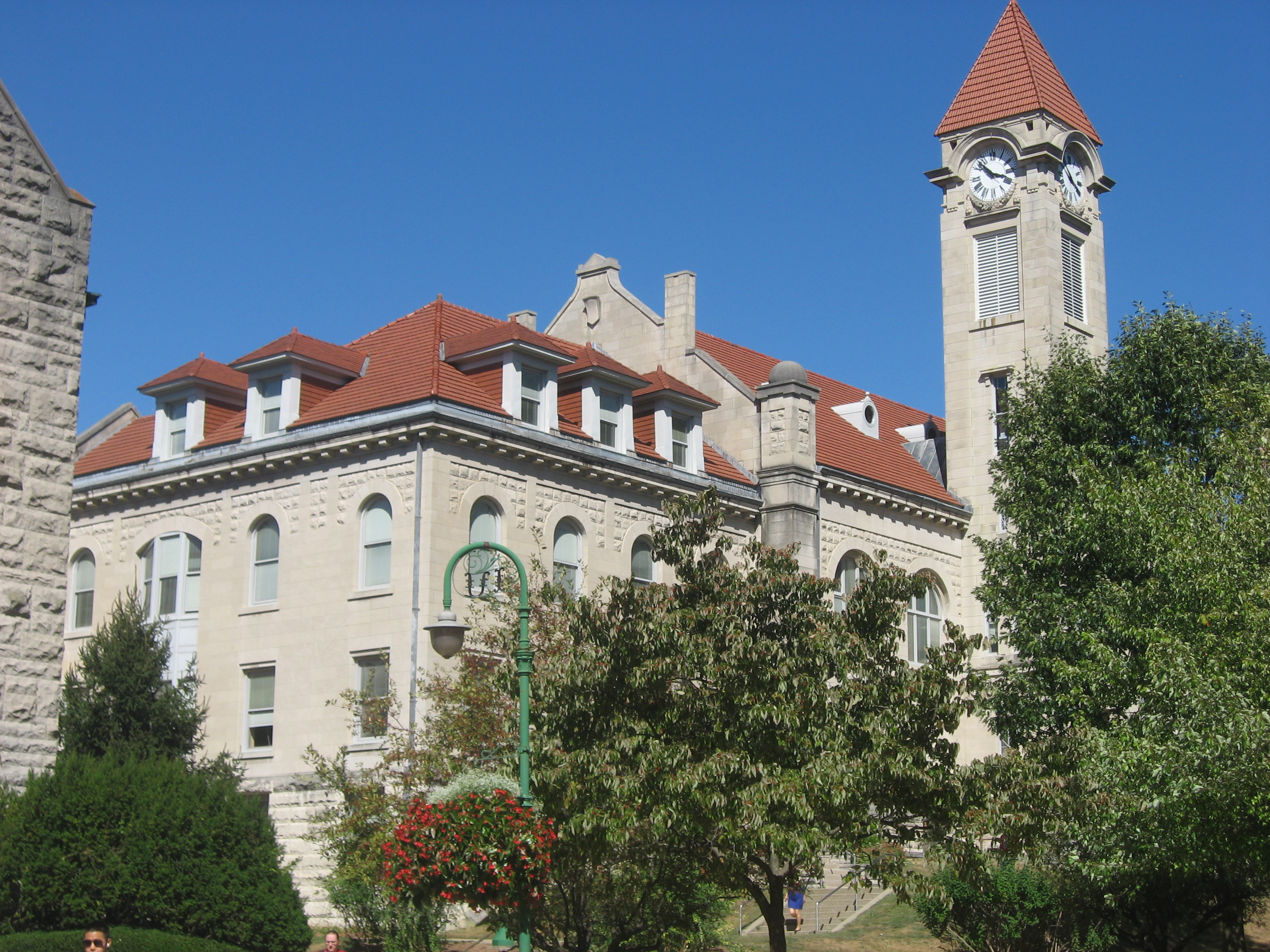 Front and western side of the Student Building on the campus of Indiana University in Bloomington, Indiana, United States. Built in 1905, it is part of The Old Crescent, a group of the oldest buildings on the university's campus that is listed on the National Register of Historic Places.